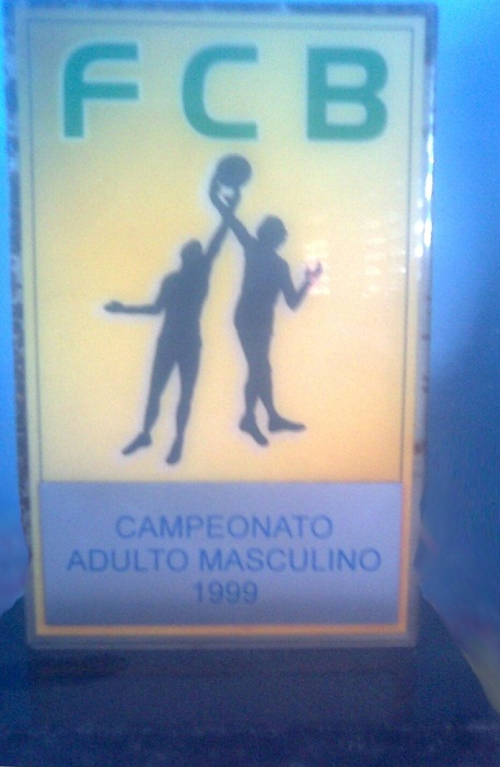 Trophies of association basketball of CE